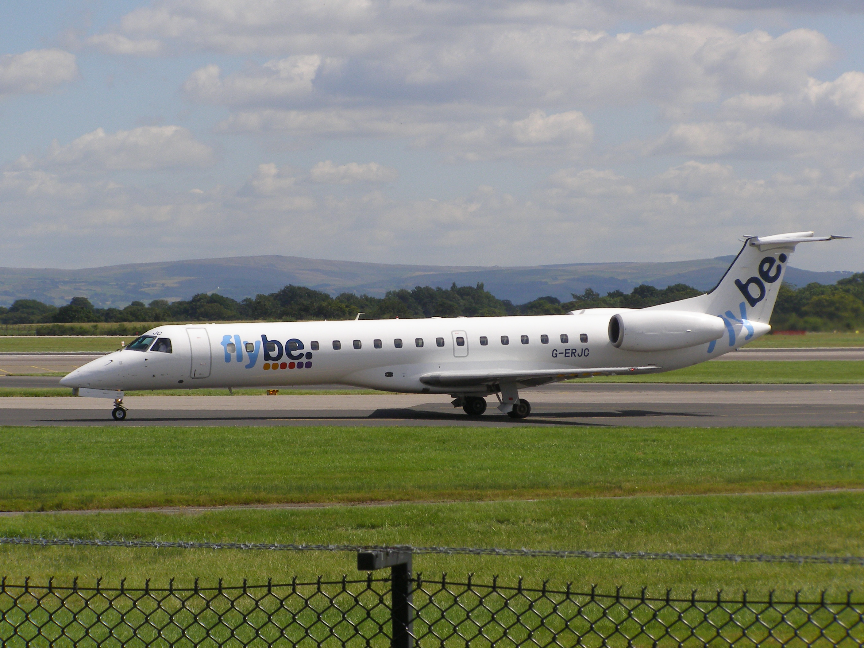 Embraer EMB-145EP of Flybee at Manchester Airport